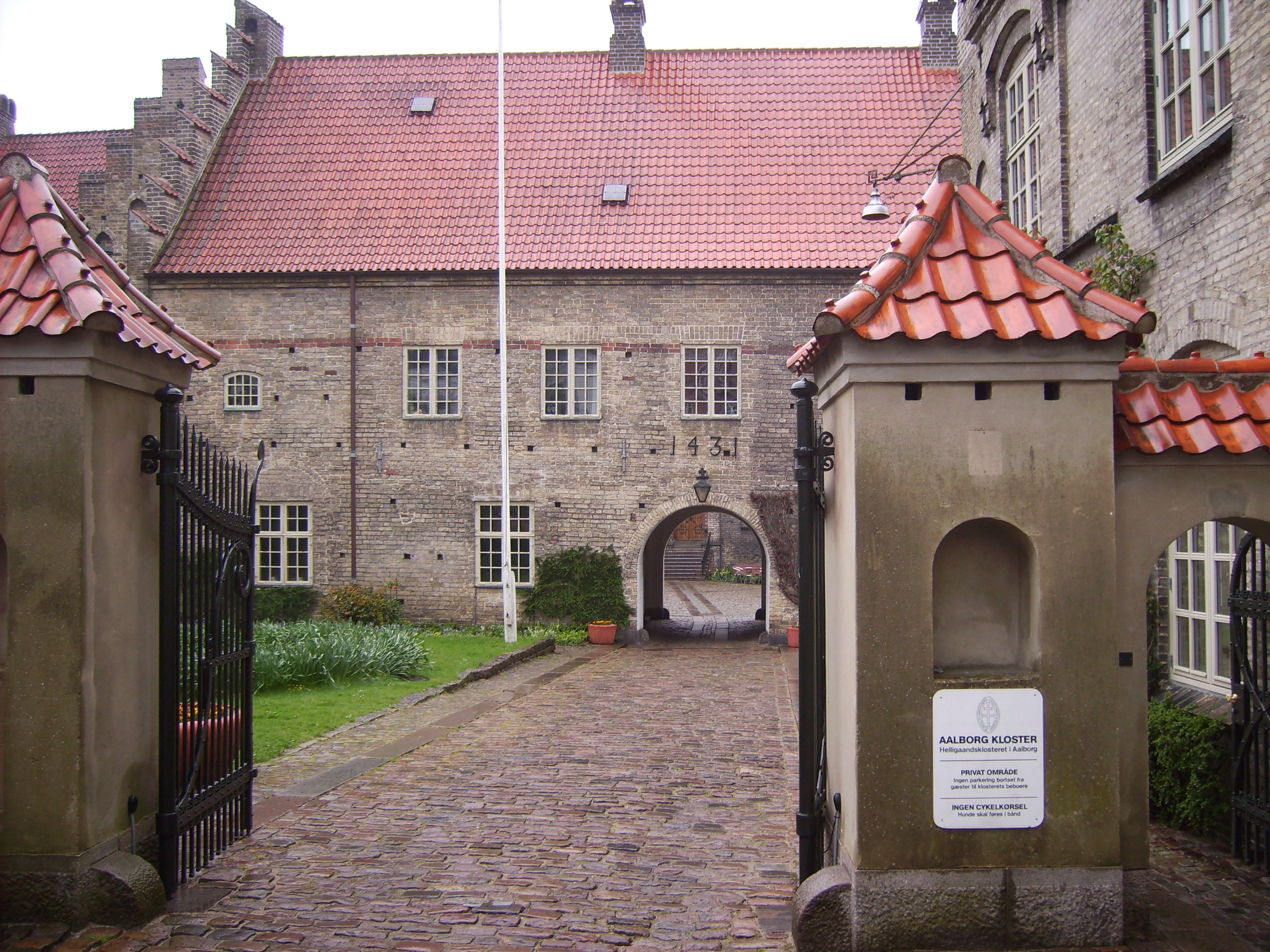 Aalborg monastery of Order of the Holy Ghost from 1451 to the Reformation in 1536. The buildings are from 1431.